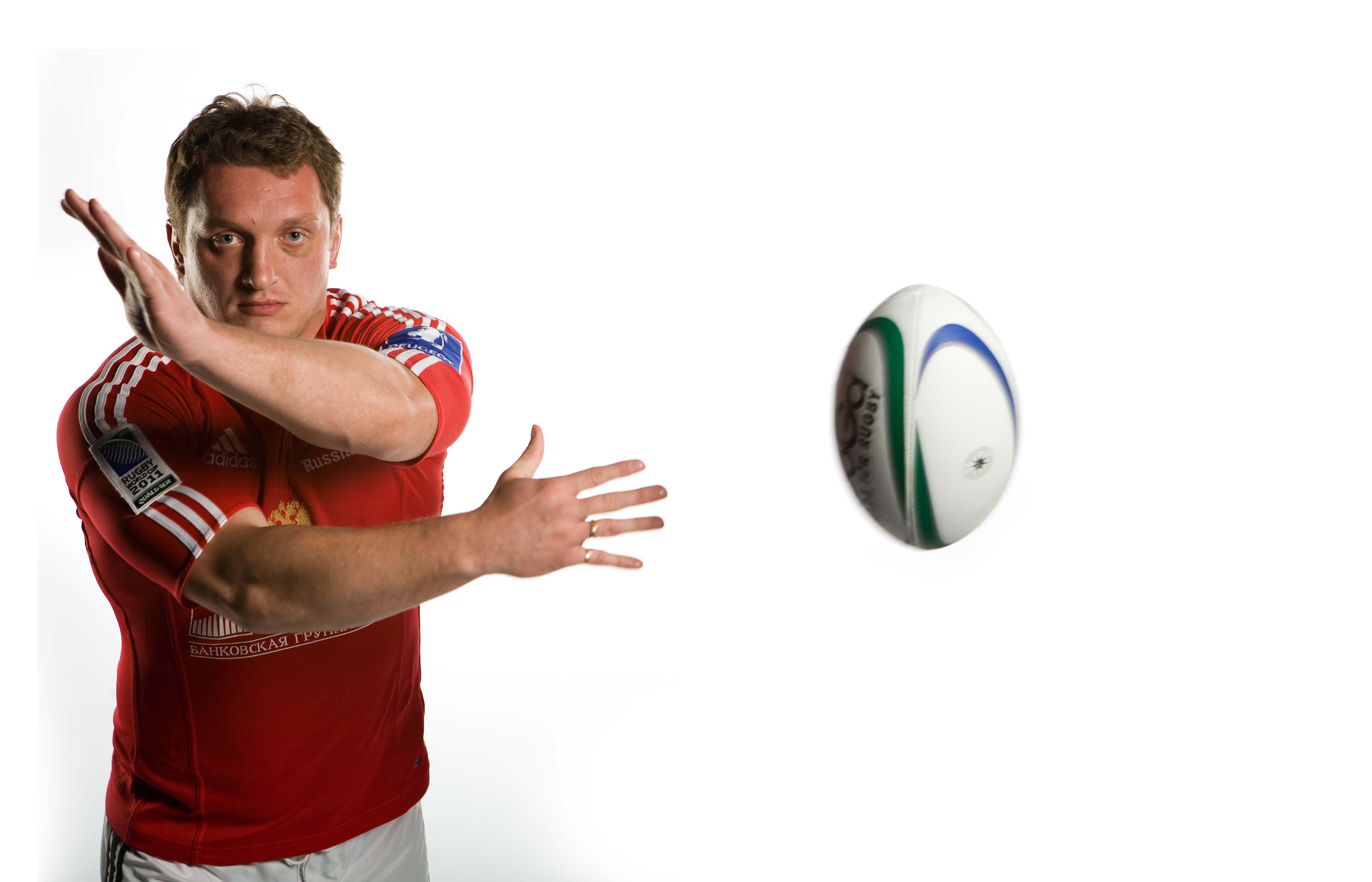 Vladislav Korshunov